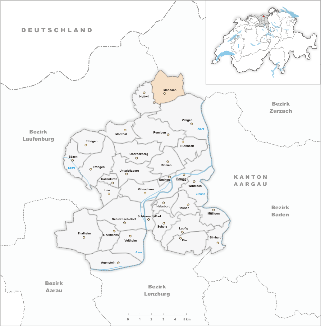 Municipality Mandach